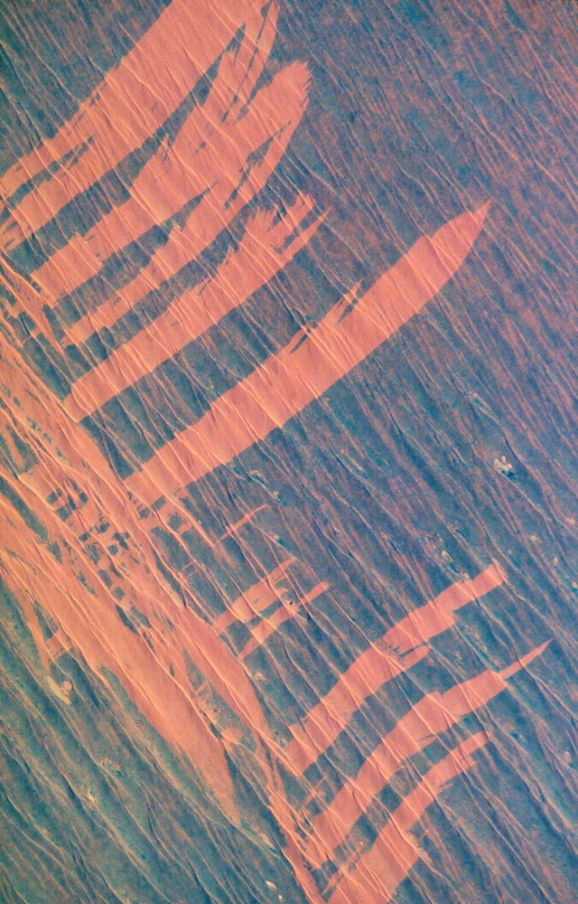 Astronaut photo of fire scars in the Simpson Desert, Australia. The image suggests a time sequence of events. Fires first advanced into the view from the left—parallel with the major dune trend and dominant wind direction. Then the wind shifted direction by about 90 degrees so that fires advanced across the dunes in a series of frond-like tendrils. Each frond starts at some point on the earlier fire scar, and sharp tips of the fronds show where the fires burned out naturally at the end of the episode. The sharp edges of the fire scars are due to steady but probably weak southwesterly winds—weaker winds reduced sparking of additional fires in adjacent scrub on either side of the main fire pathways.